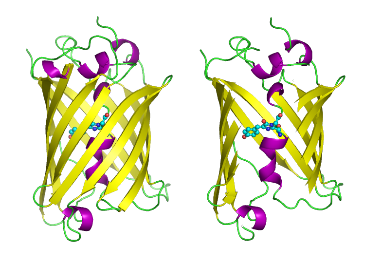 Green Fluorescent Protein drawn in cartoon style with fluorophore highlighted as ball-and-stick; one wholly-reproduced protein, and cutaway version to show the fluorophore. Modelled and rendered using PyMOL.